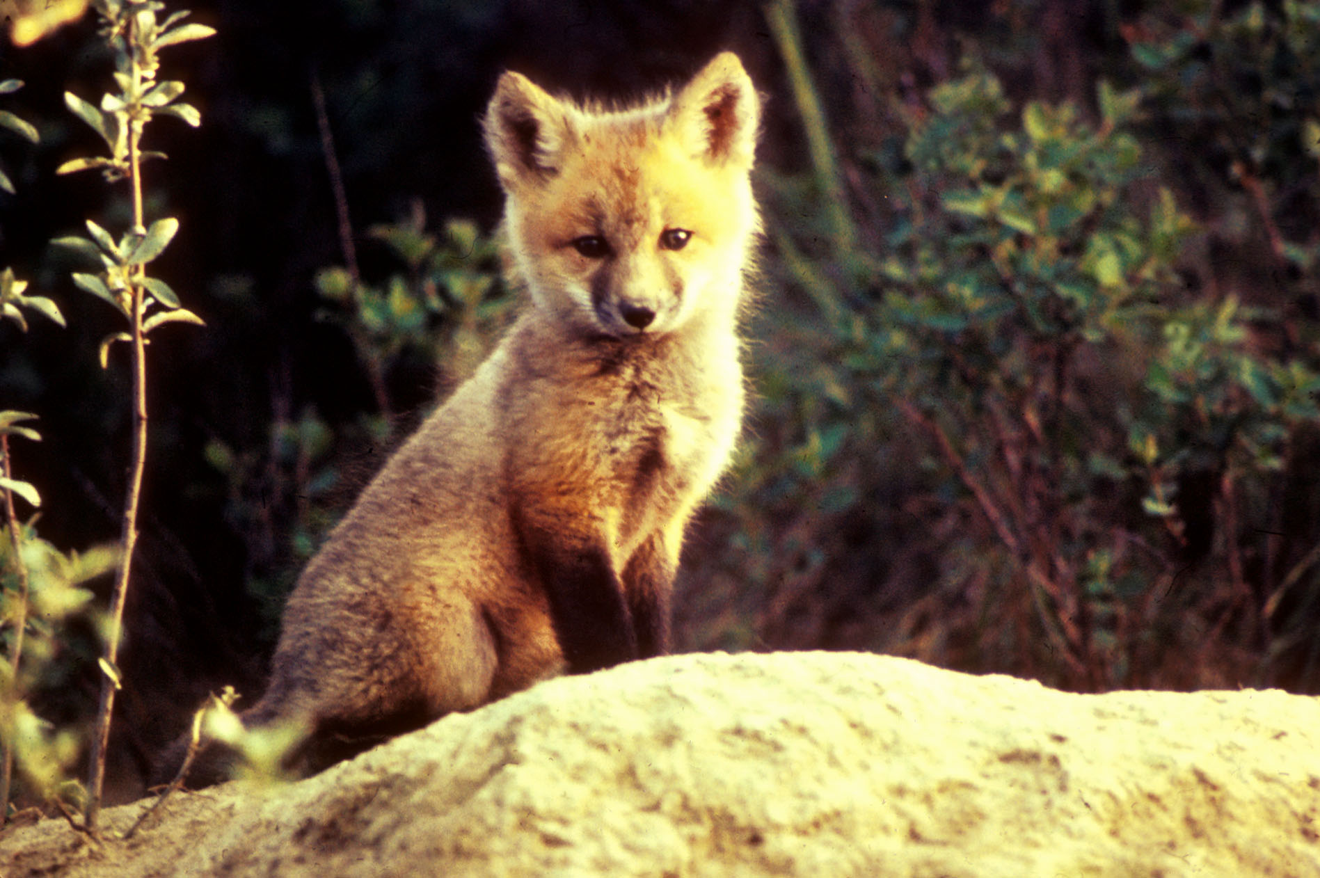 Red fox (Vulpes vulpes).